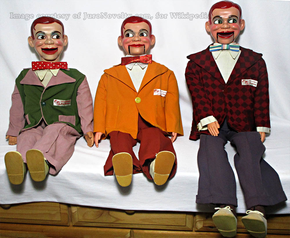 Different versions of Jerry Mahoney (character created by ventriloquist Paul Winchell) toys produced by Juro Novelty Co. in all original condition. Mid 1950s version on left with moving mouth only. 1960 version in middle with moving eyes, and mid 1960s extra tall moving eyes version on right.